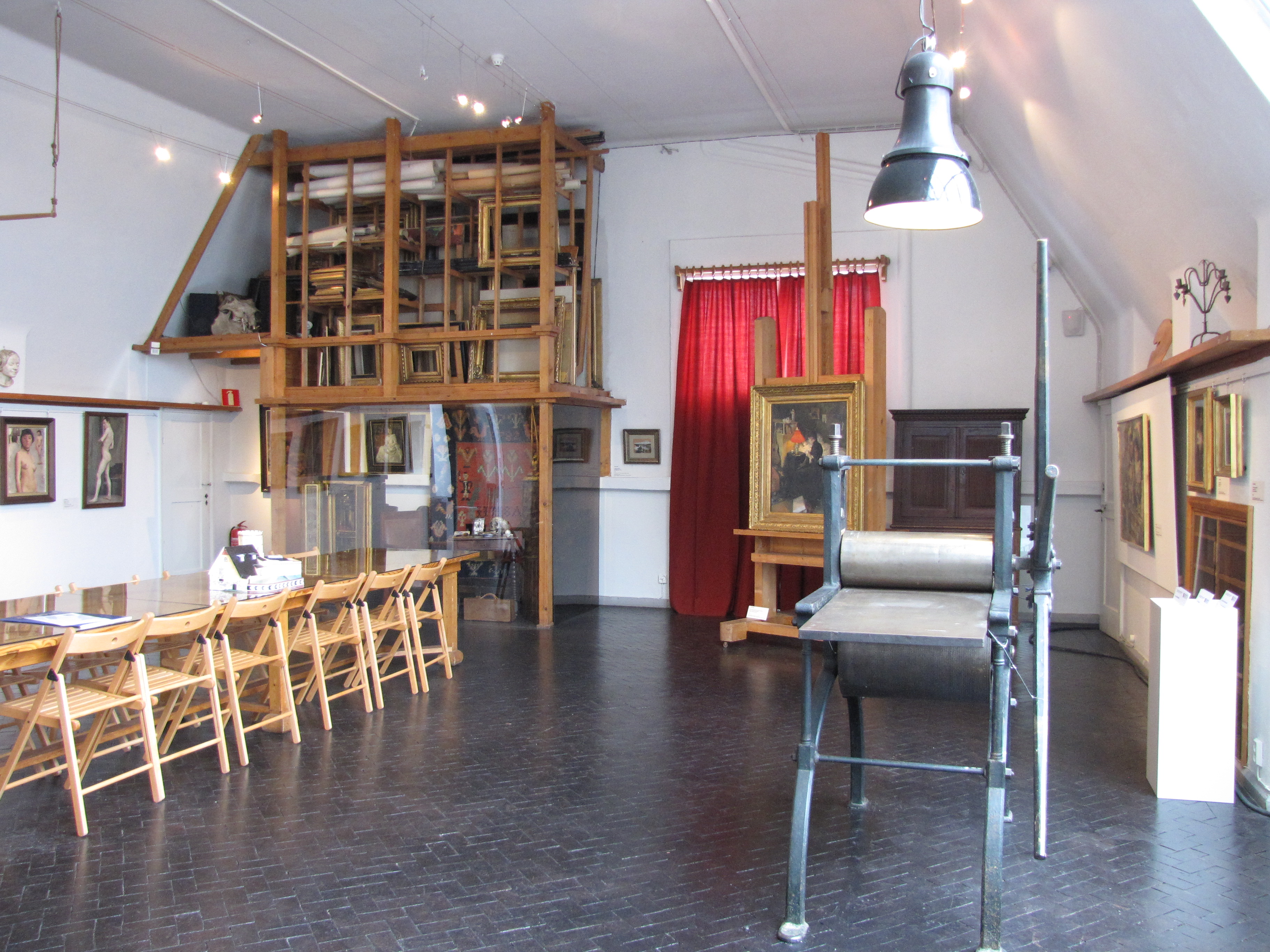 Tarvaspää Gallen-Kallela museum in Espoo, interior view of the atelier. Photographed during the "All or Nothing – The Young Axel Gallén!" exhibition.